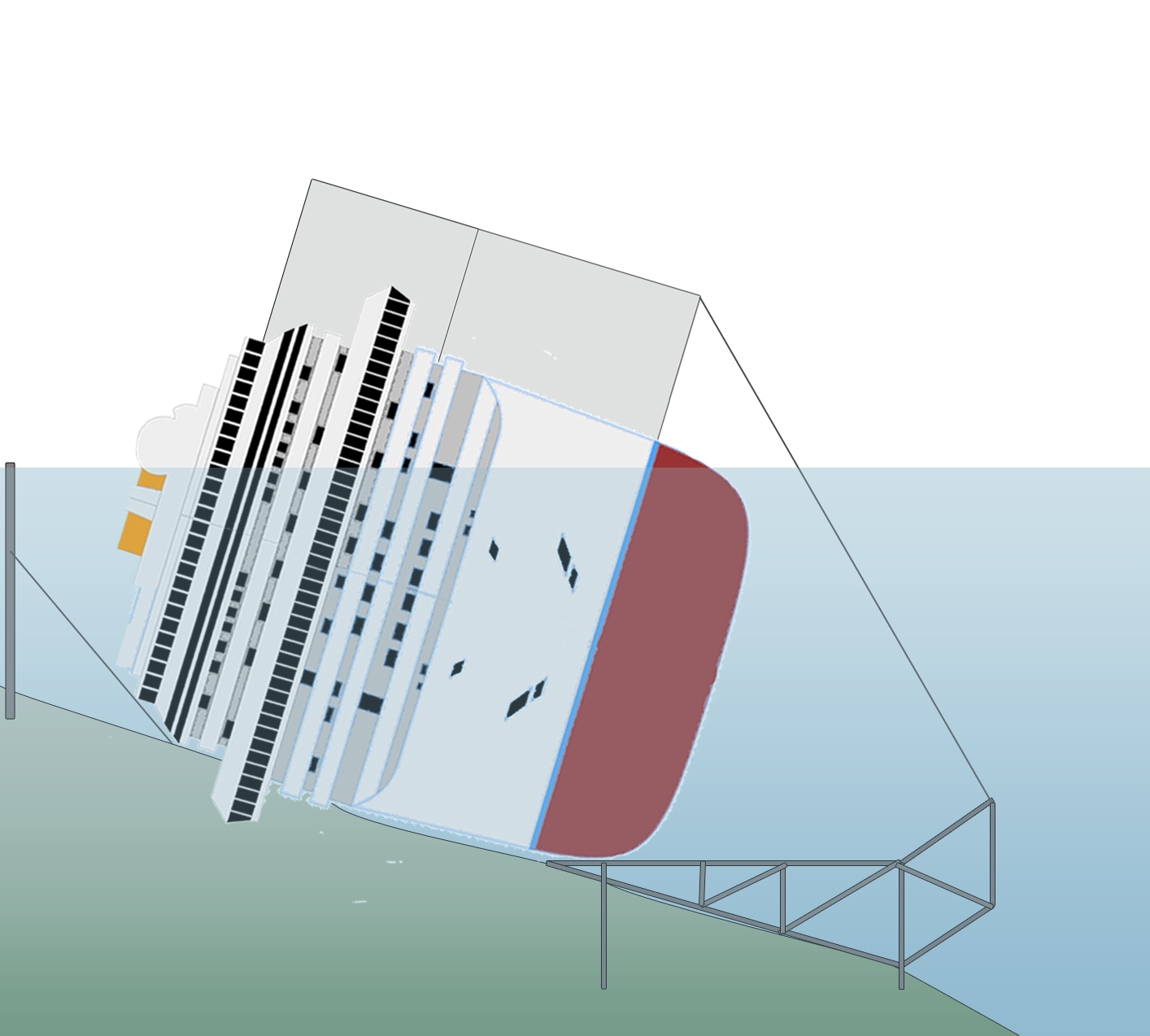 Rightening of Costa Concordia - stage 1 of 4. A process called parbuckling used pulling cables and metal boxes with water and welded to the ship's sides to roll it upright. The procedure took 19 hours to complete at Giglio island. Once the ship had rotated to 25 degrees, no further pulling was required as it continued to rotate under its own weight.